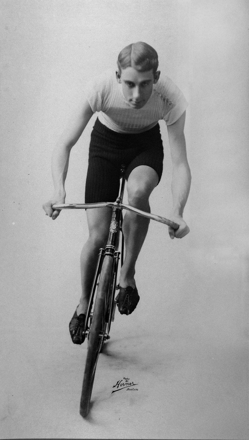 Harry Elkes, professional bicycle racer. Held the world record for "paced-cycle racing" during most of his career.